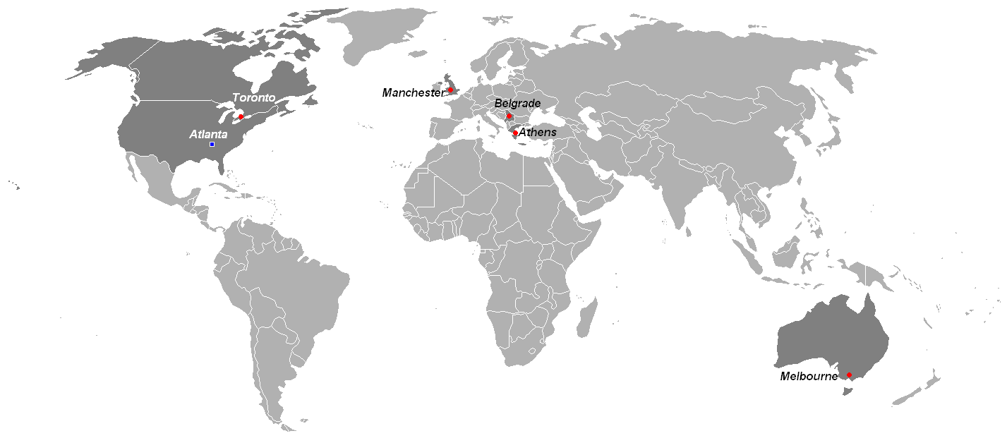 The candidate cities to host the 1996 Summer Olympics, derived from blank world map.